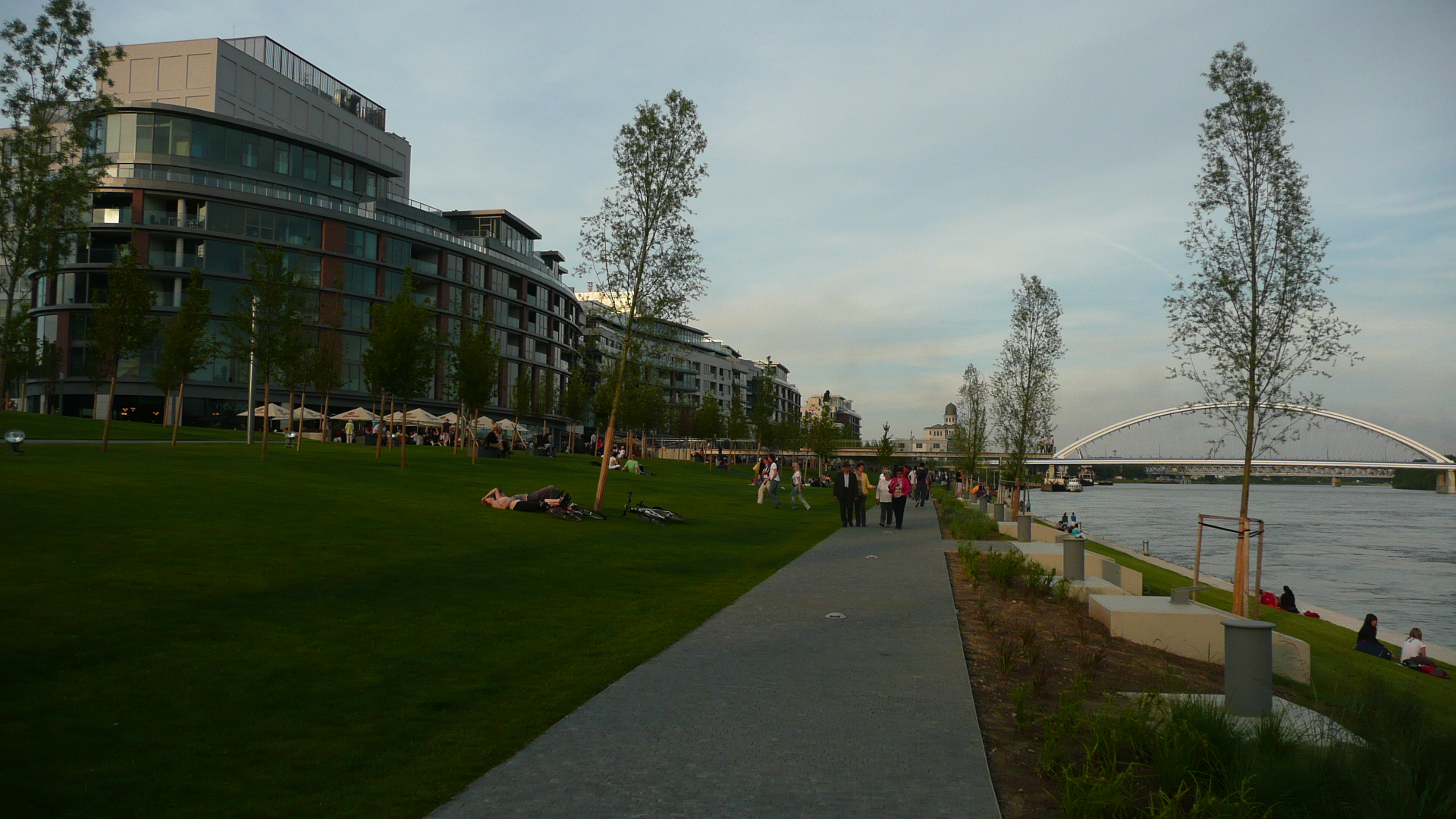 A promenade on the Danube river side next to Eurovea business, retail and residential center in Bratislava, Slovakia.